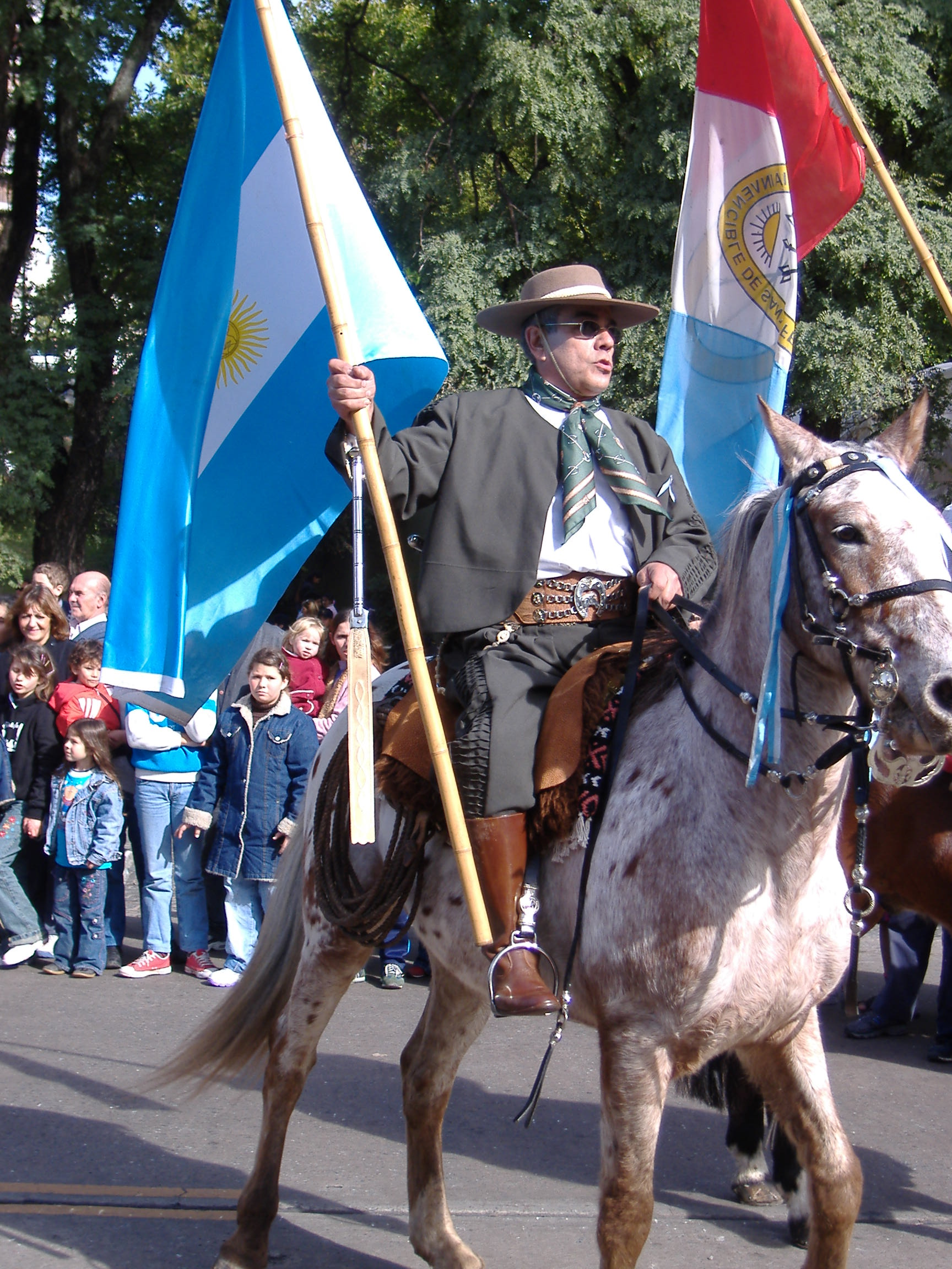 A gaucho member of a traditionalist association, during the civic parade of Flag Day (20 June) 2006, in Rosario, Argentina, carrying the Argentine flag (the one in the background is the flag of the province of Santa Fe)